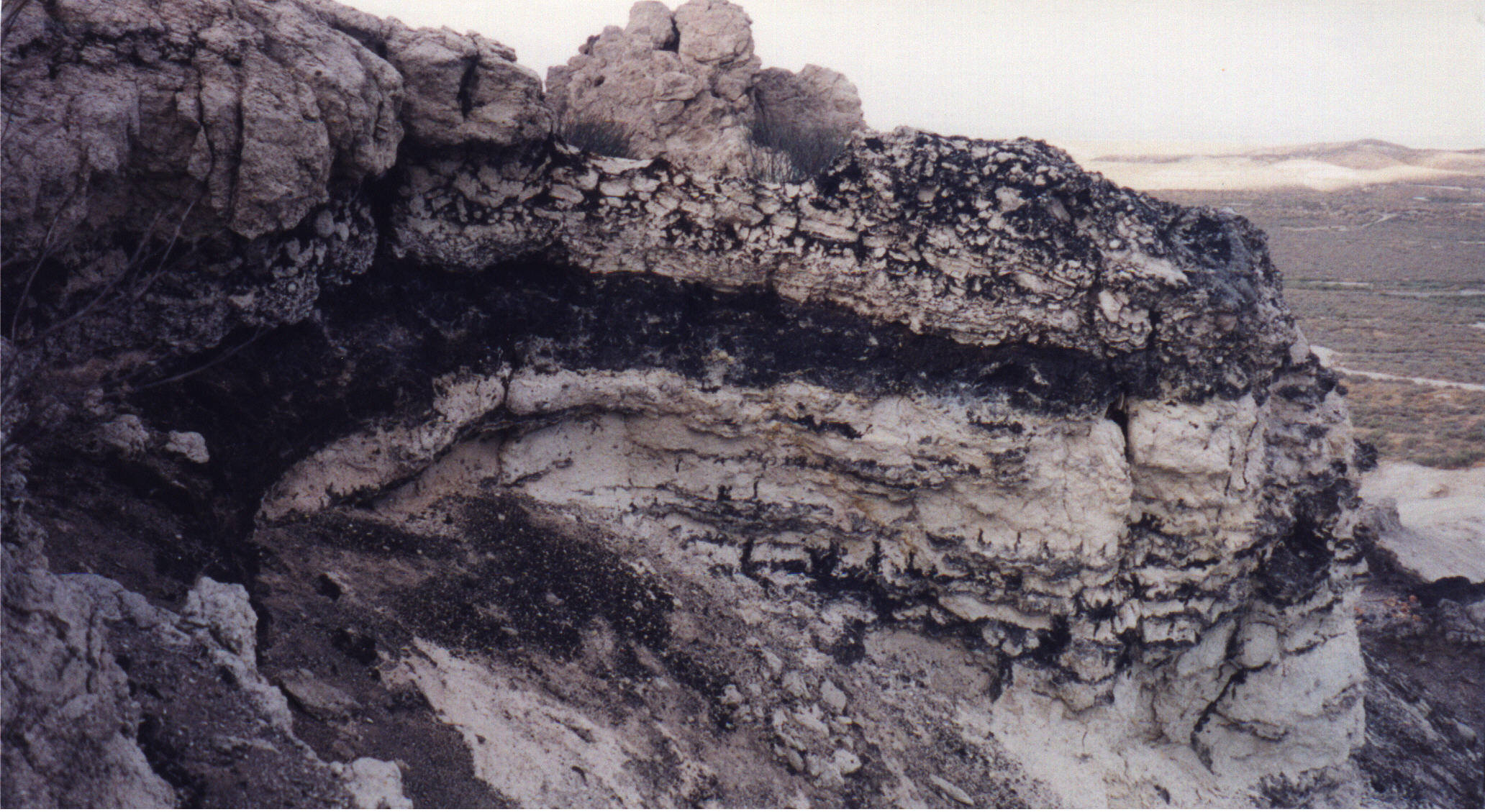 This outcrop of diatomite has streaks of oil. It is located in McKittrick oilfield, in Kern County California. There are numerous oil seeps in this area.